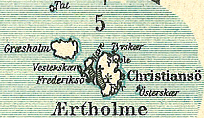 Map of Ertholmene, north of Bornholm in Denmark